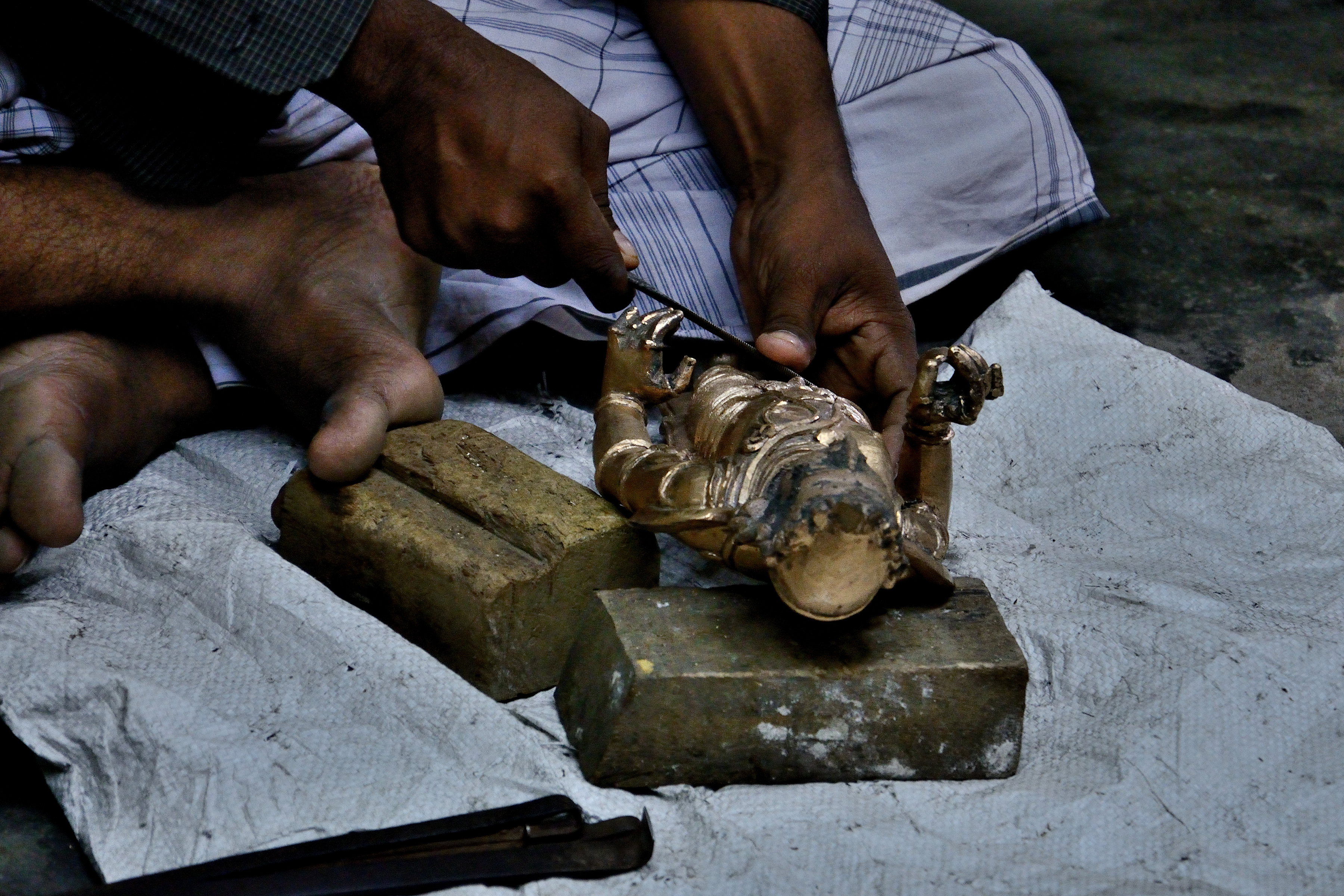 This photo has been taken in the country: India